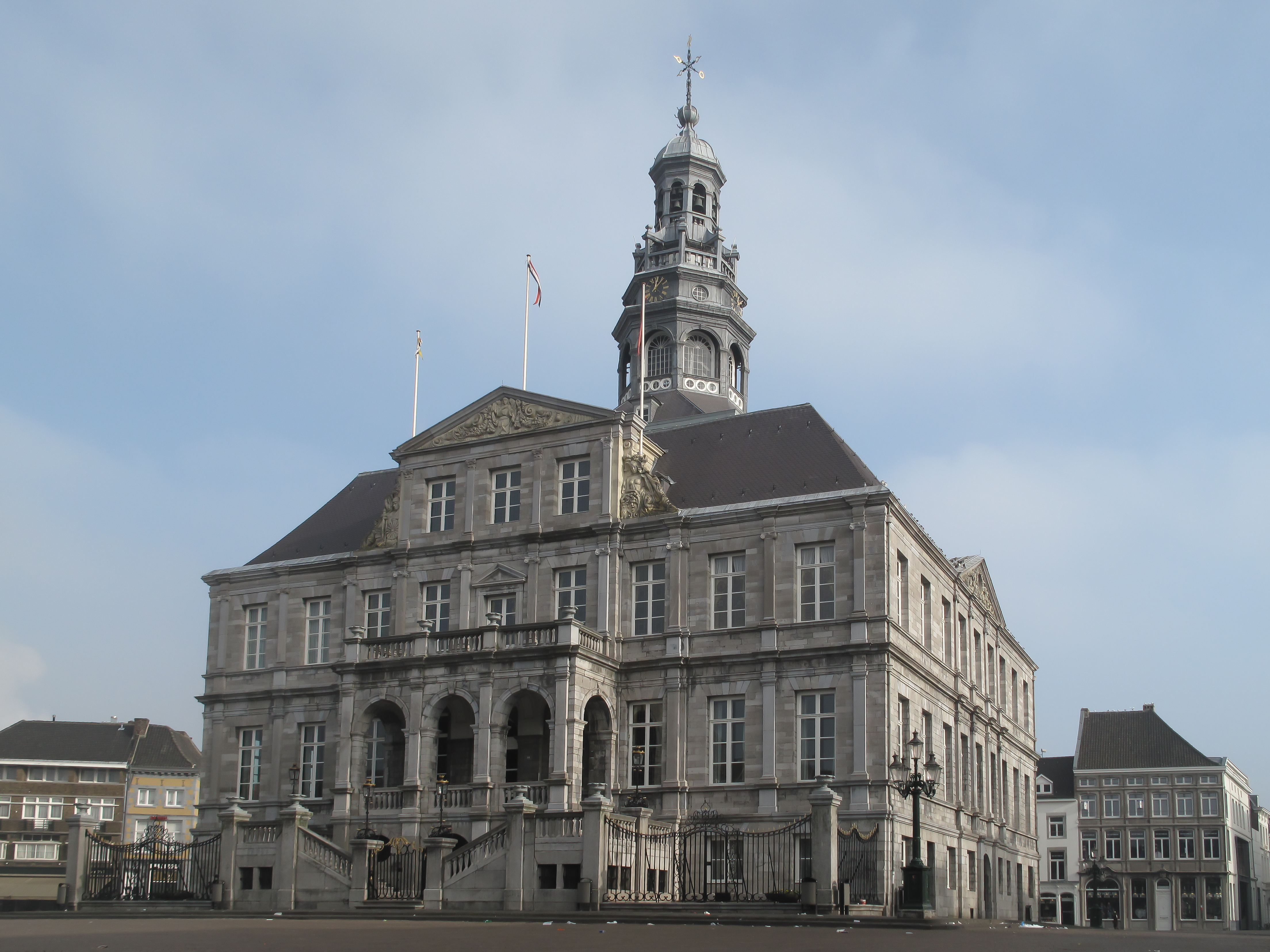 Maastricht, the town hall